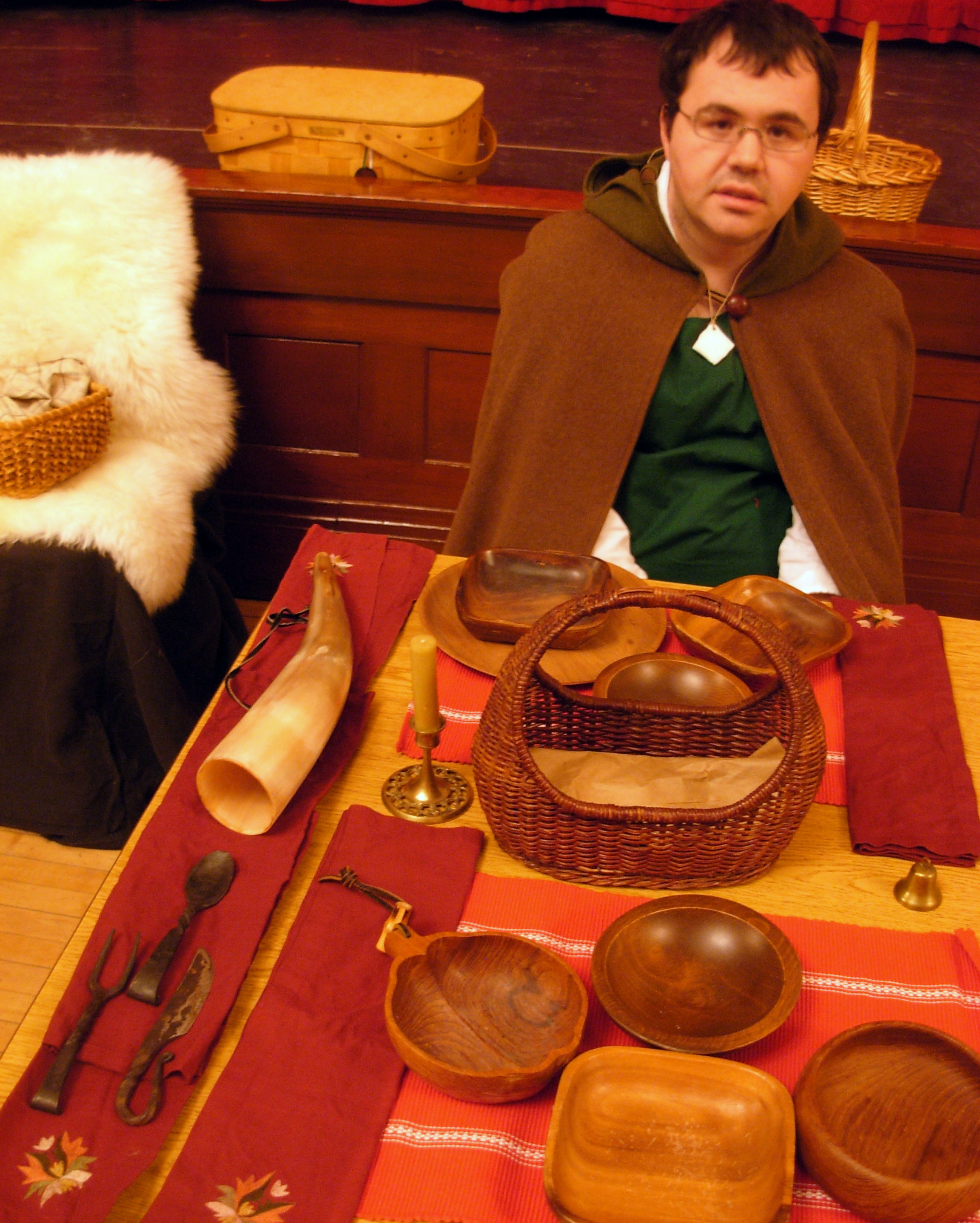 Society for Creative Anachronism participant in period garb prepared for feast